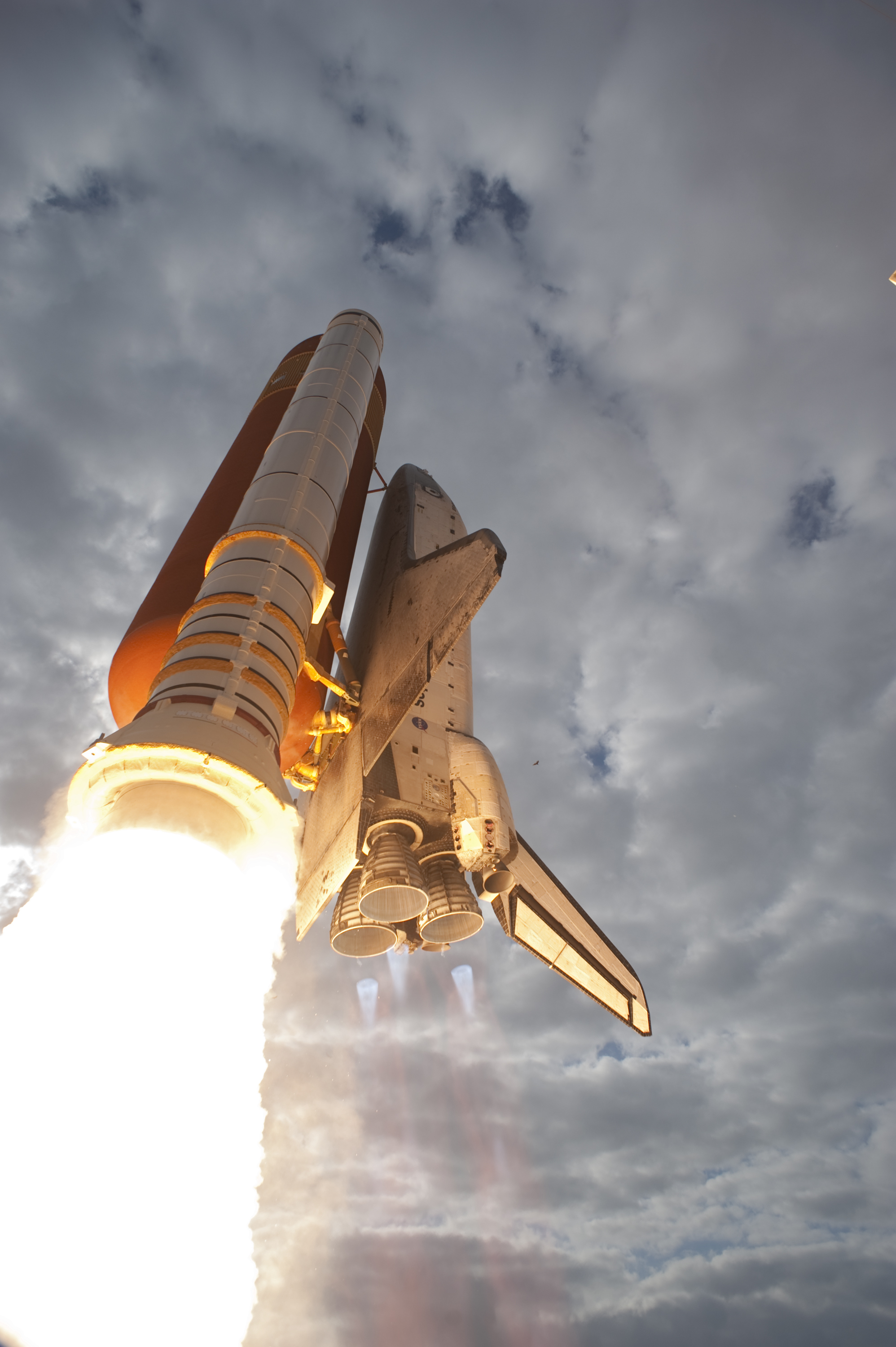 CAPE CANAVERAL, Fla. -- Space shuttle Endeavour soars to orbit from Launch Pad 39A at NASA's Kennedy Space Center in Florida. Endeavour began its final flight, the STS-134 mission to the International Space Station, at 8:56 a.m. EDT on May 16. Endeavour and its six-member crew will deliver the Alpha Magnetic Spectrometer-2 (AMS), Express Logistics Carrier-3, a high-pressure gas tank and additional spare parts for the Dextre robotic helper to the space station.